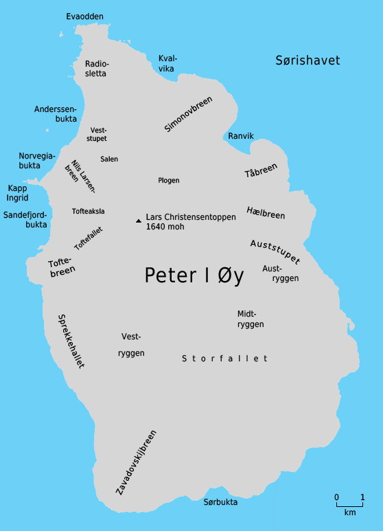 Map of Peter I Island (norwegian language)